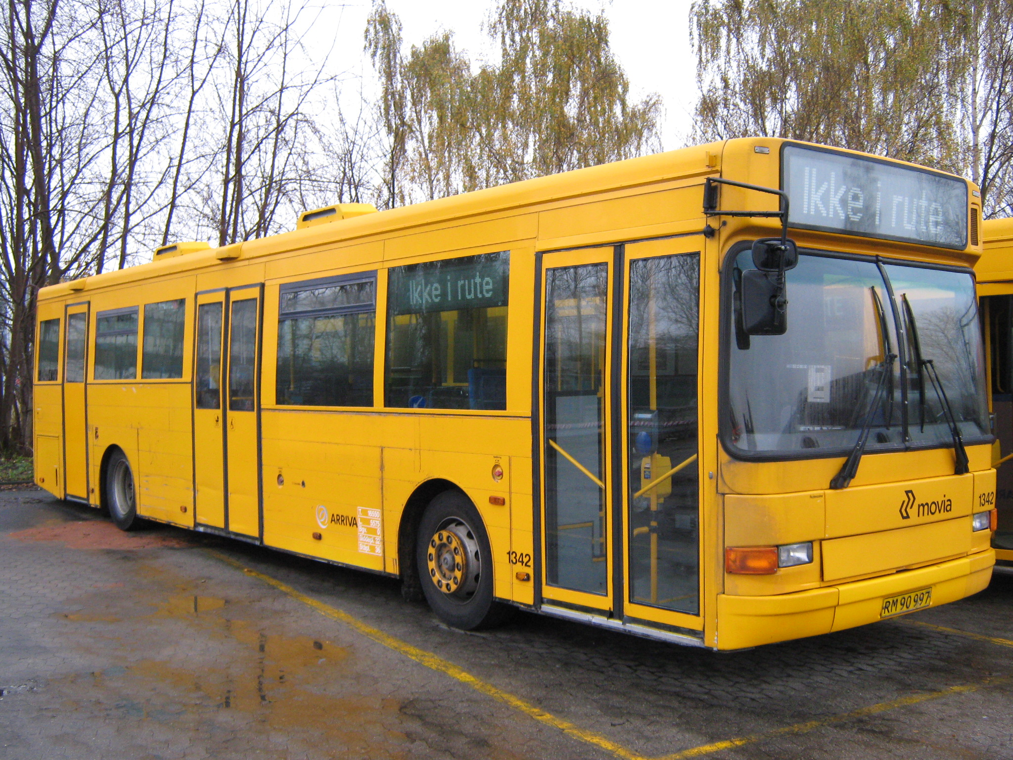 Arriva Volvo B10BLE bus, internal number 1342 in Gladsaxe garage. The sign shows "Ikke i rute" (not in service).